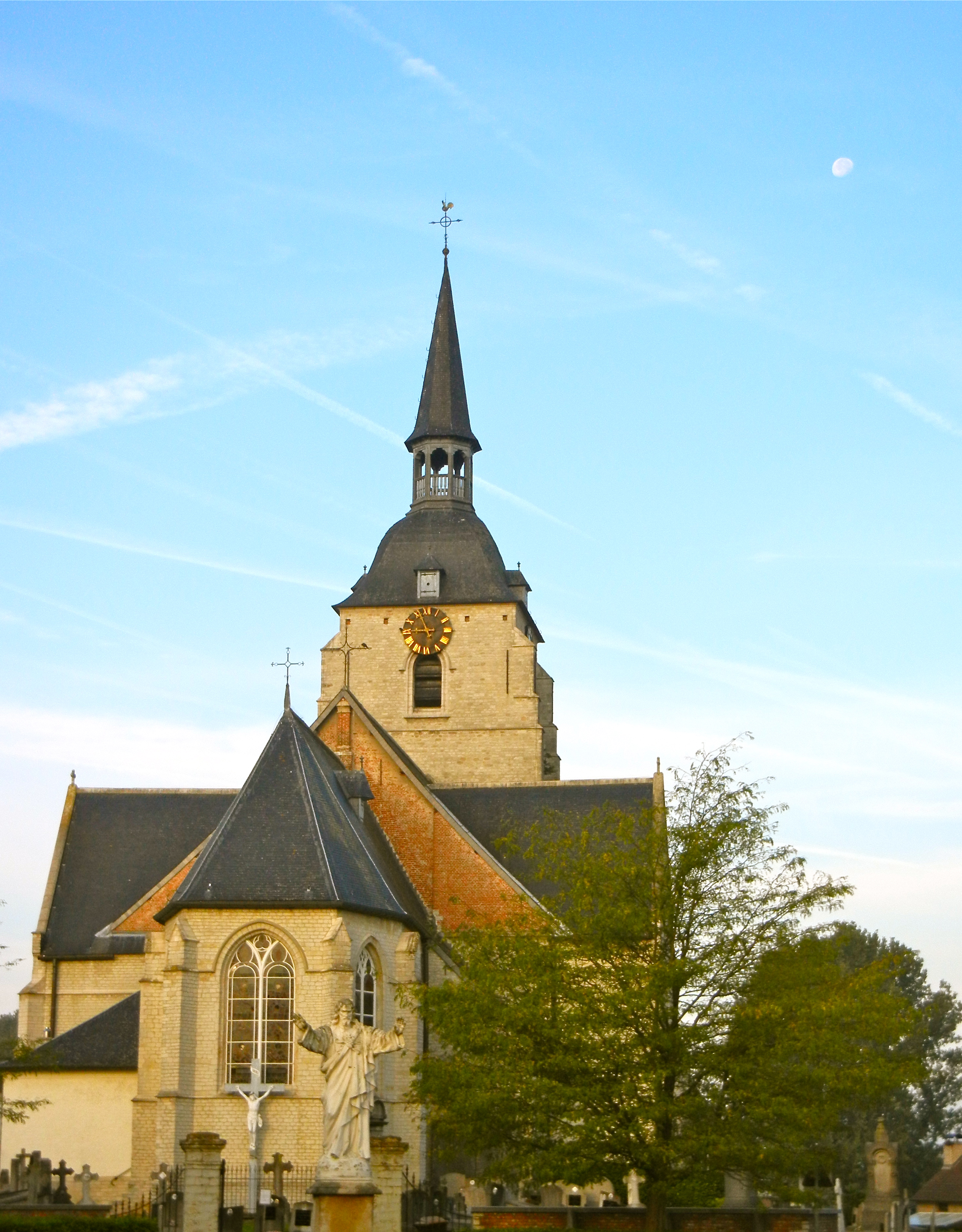 Church St.-Martinus located in the rural village of Rijmenam, province of Antwerp. View from the backside of the church.